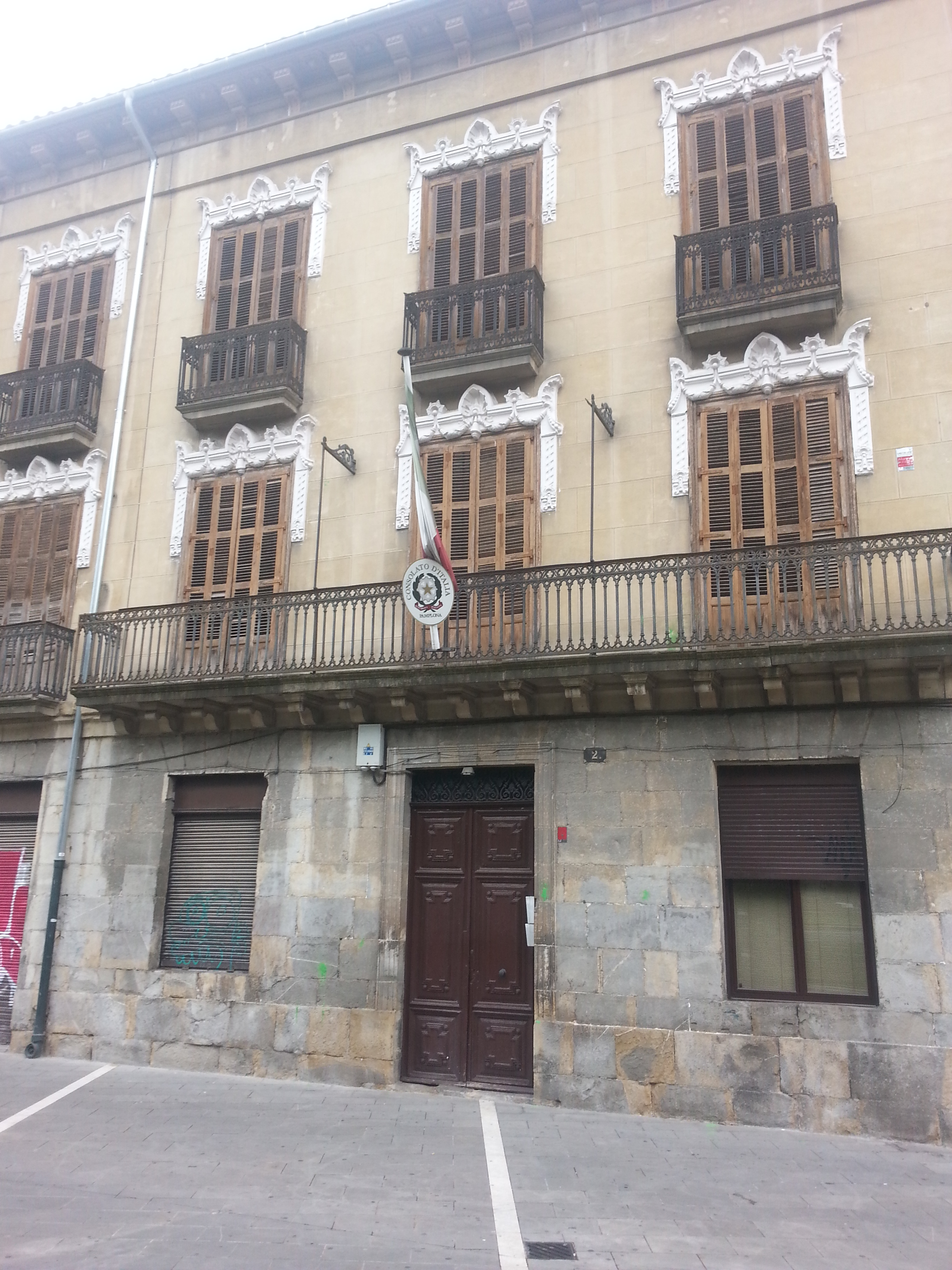 Spain